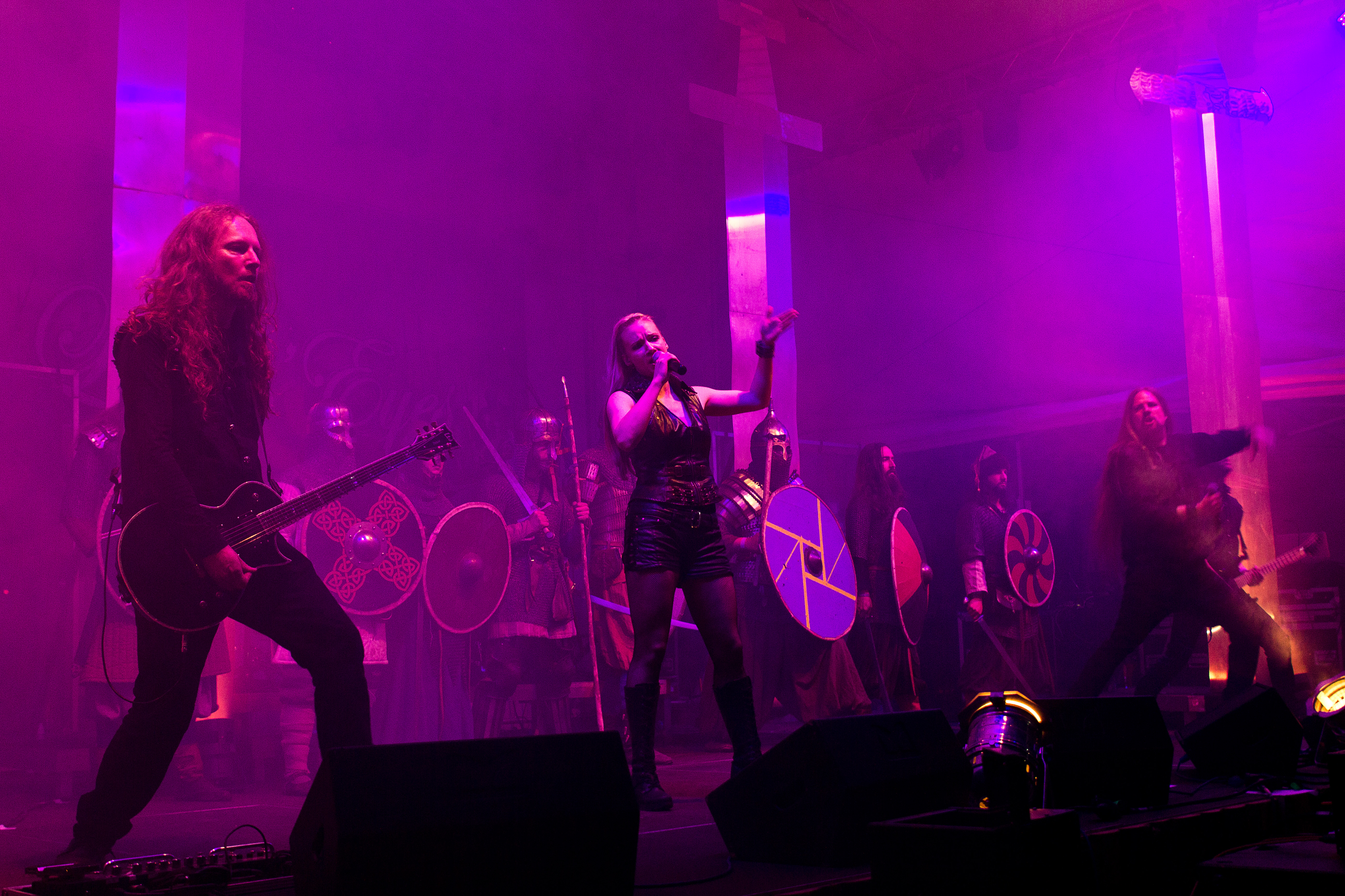 The German symphonic metal band Leaves’ Eyes at the 25. Wave-Gotik-Treffen 2016 in Leipzig/Germany.